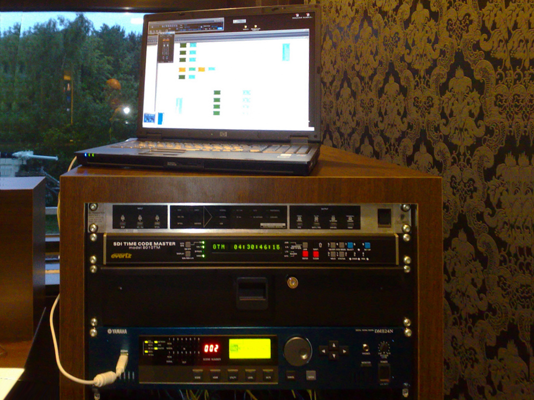 The new voice over booth for the NPO Note PC for programming the Digital Mixing Engine (Yamaha DME24N) Behringer unknown Evertz 8010TM SDI Time Code Master (ReaderGenerator with Character Inserter) Yamaha DME24N Digital Mixing Engines